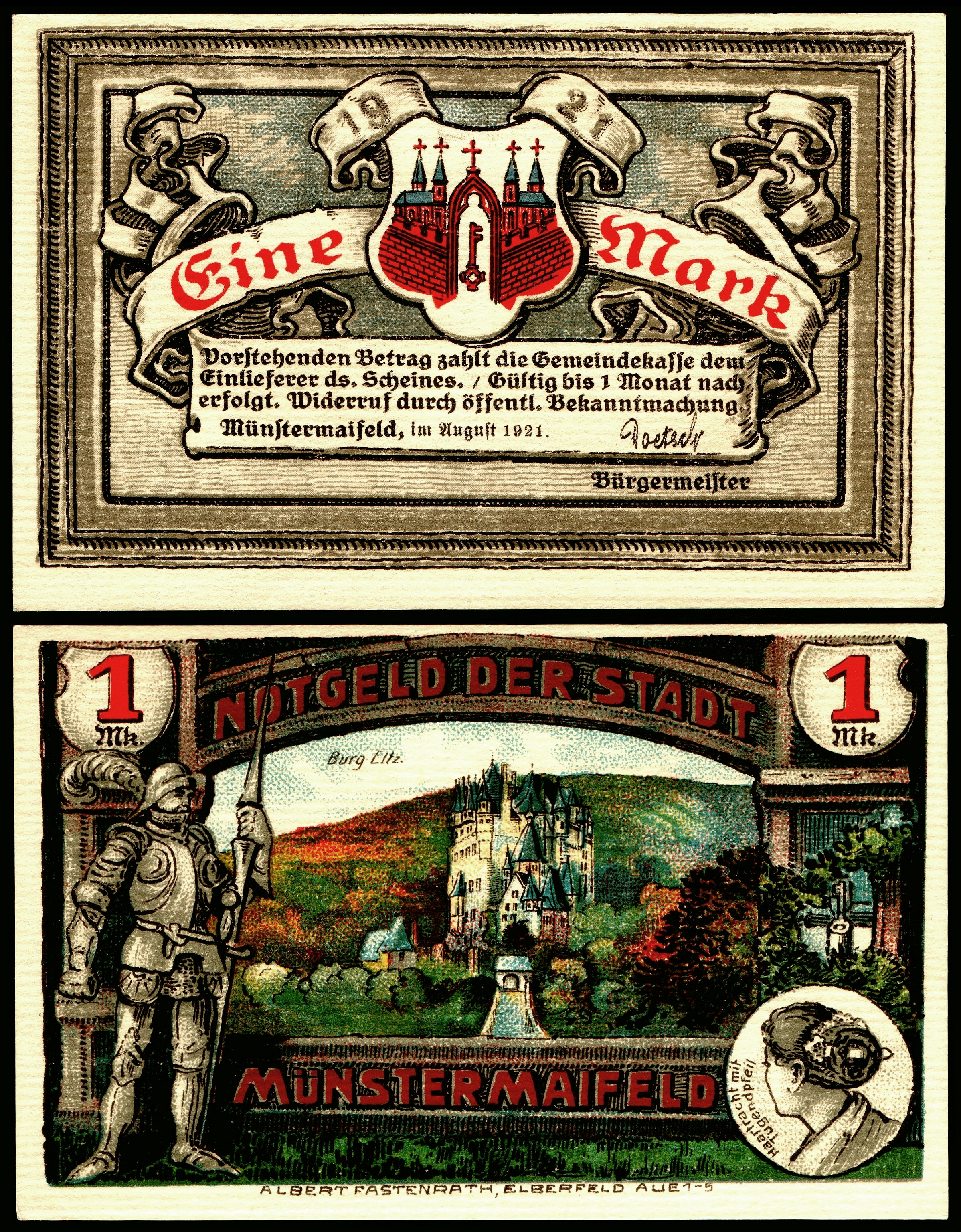 Notgeld banknote (German for "emergency money" or "necessity money"), 1921, 1 Mark, issued by the city of Münstermaifeld, Germany. RV: Eltz Castle. Size: 98 mm x 63 mm.